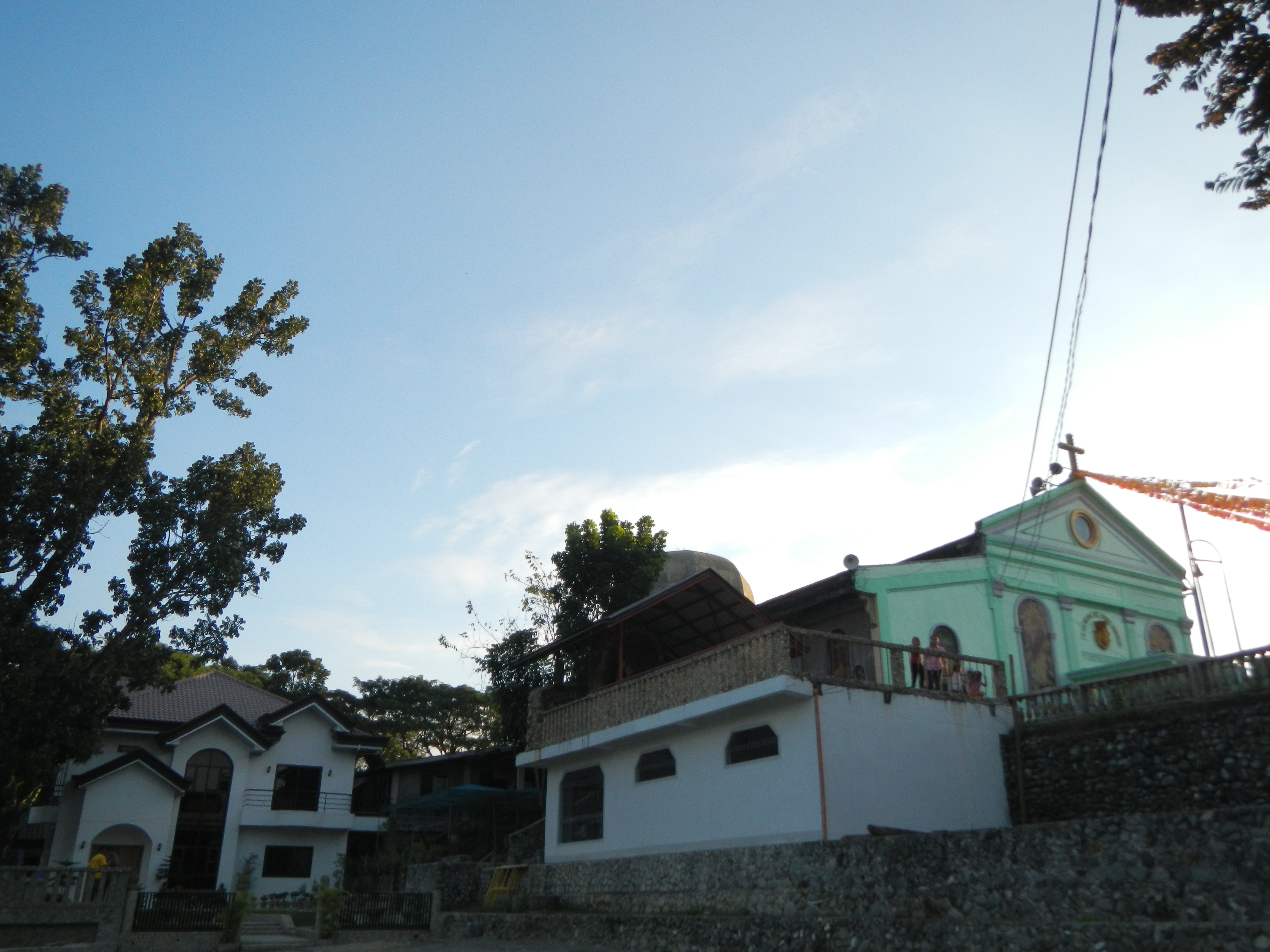 Our Lady of Mount Carmel Parish Church, Diocese of San Fernando de La Union (Dioecesis Ferdinandopolitana ab Unione) Suffragan of Lingayen – Dagupan [1] Sison, Pangasinan[2][3]